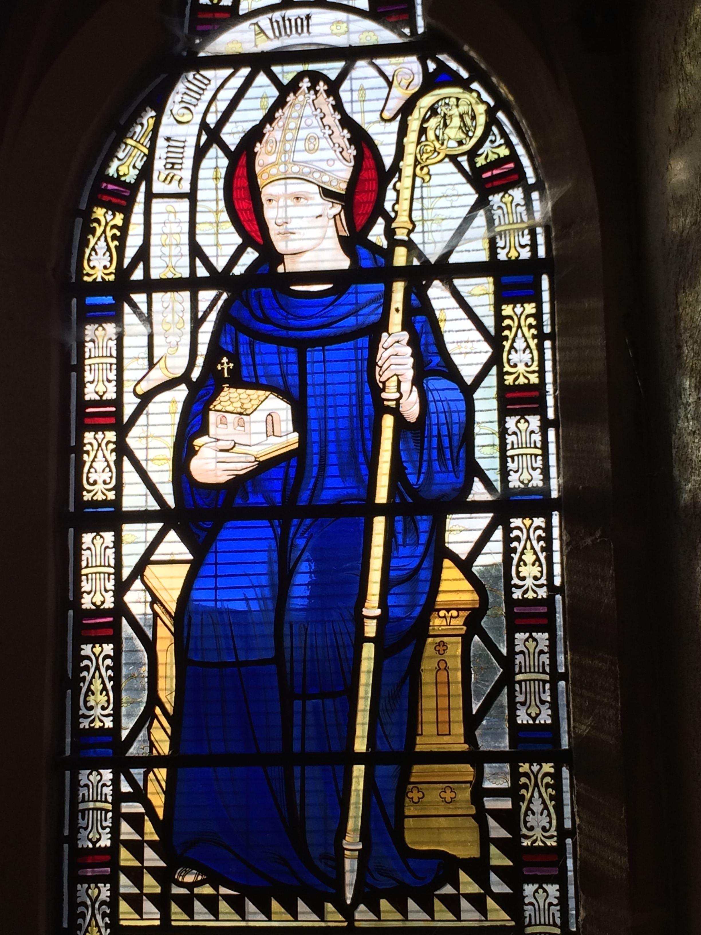 Stained glass window of St Trillo in St Trillo's parish church, Llandrillo, Denbighshire (formerly Merionethshire), Wales